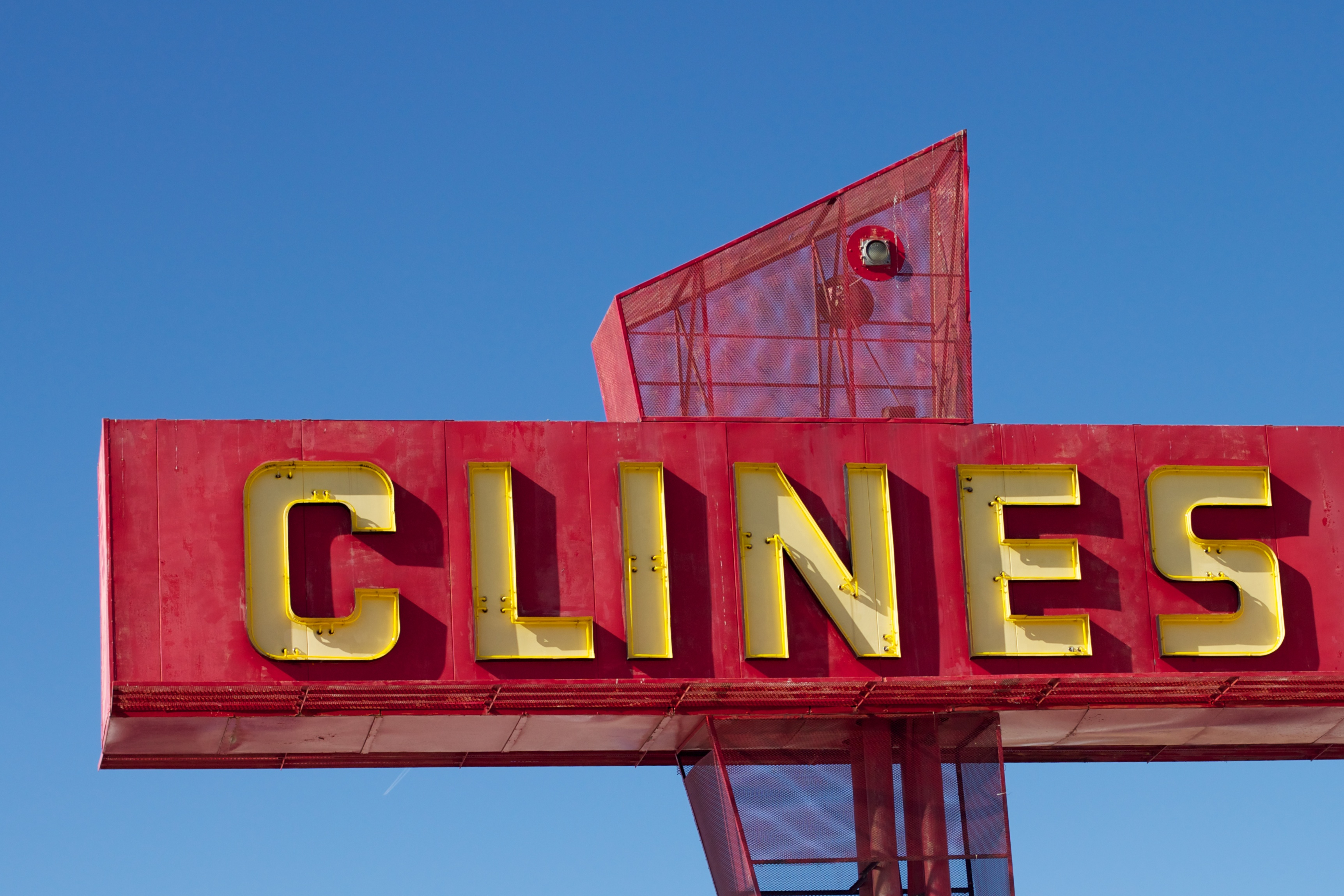 Clines Corners, NM, a road stop east of Albuquerque